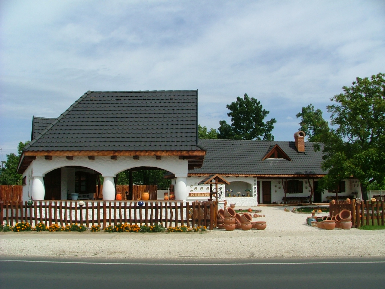 Újkér; ceramic manufactory